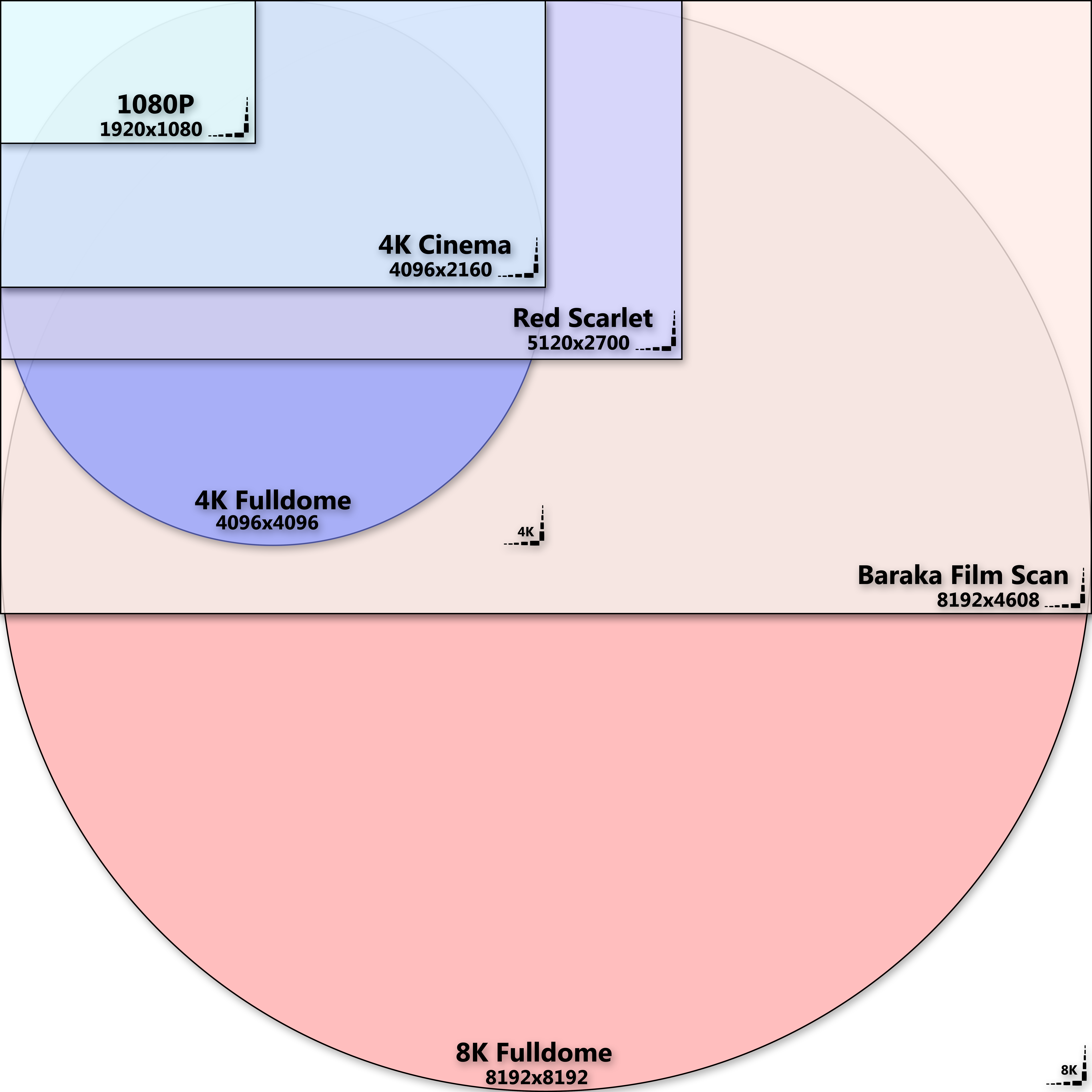 8K Fulldome resolution chart: This chart shows the proportional scale differences from 1080p (1920×1080 pixels) to 8K×8K fulldome video. — Note: Down-scaled to 4K due to Wiki limitations of 50 million pixels.